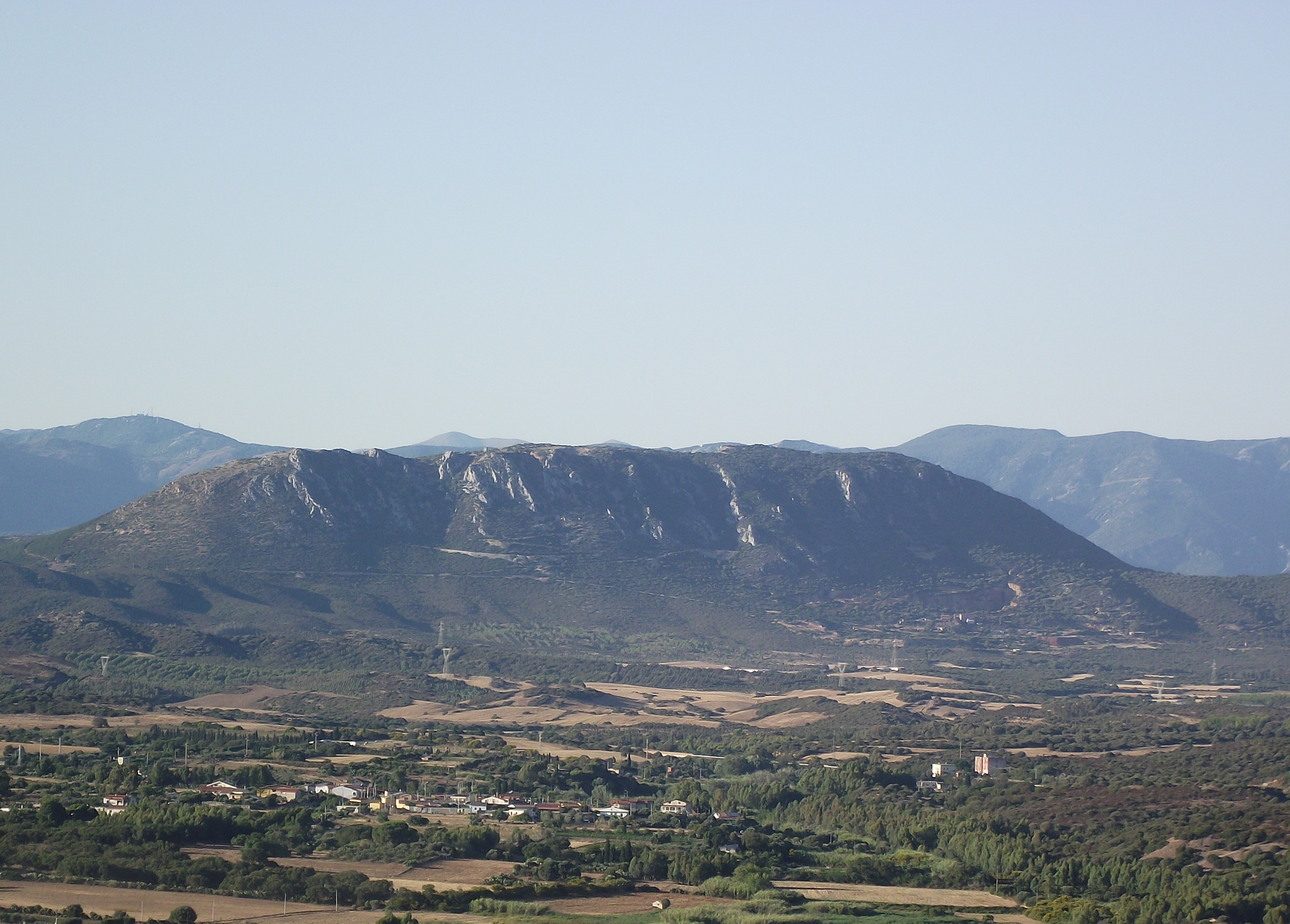 Monte Barega, in Iglesias, Sardinia, Italy, seen from monte Sirai in the nearby Carbonia. At the base of the hill is visible the former Barega mine.